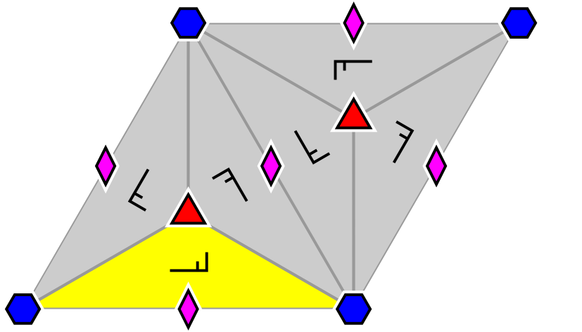 Cell structure diagram of the wallpaper group p6